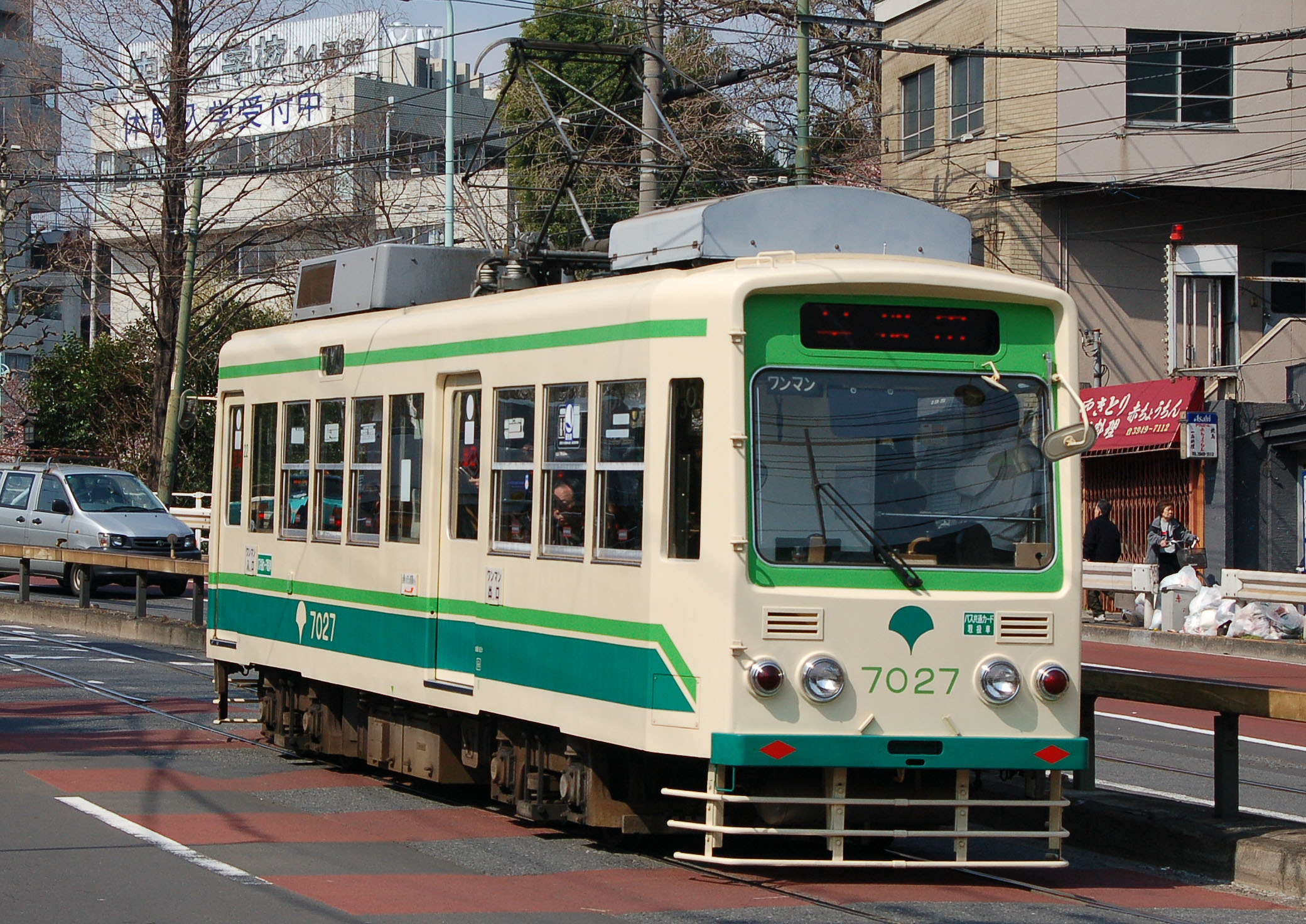 Toden Arakawa line 7000 type electric car. 都電荒川線7000形電車。王子-飛鳥山間にて(後追い撮影)。